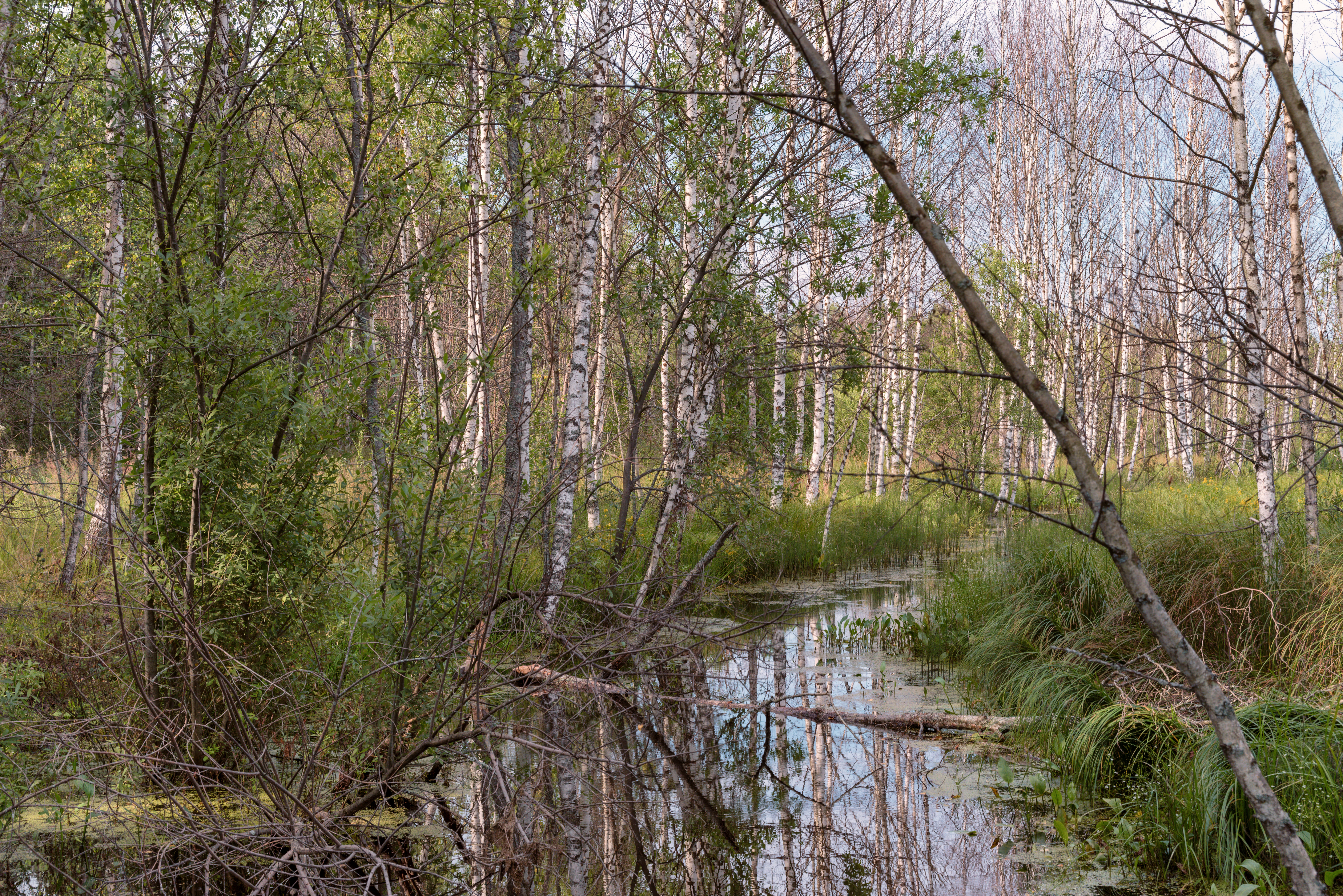 Vonga river in the vicinity of Dolgovo village. Yaroslavl Region, Russian Federation.